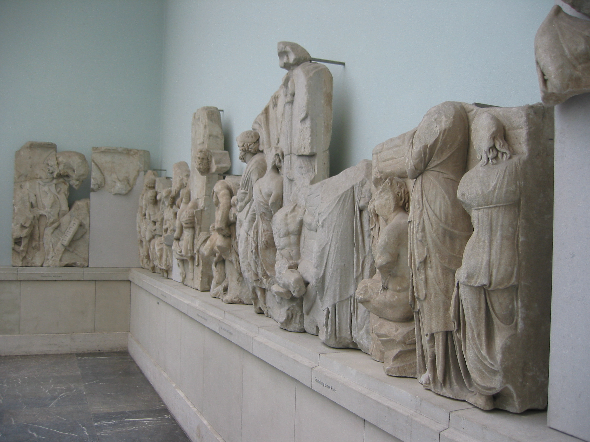 Object in the Pergamonmuseum, Berlin.